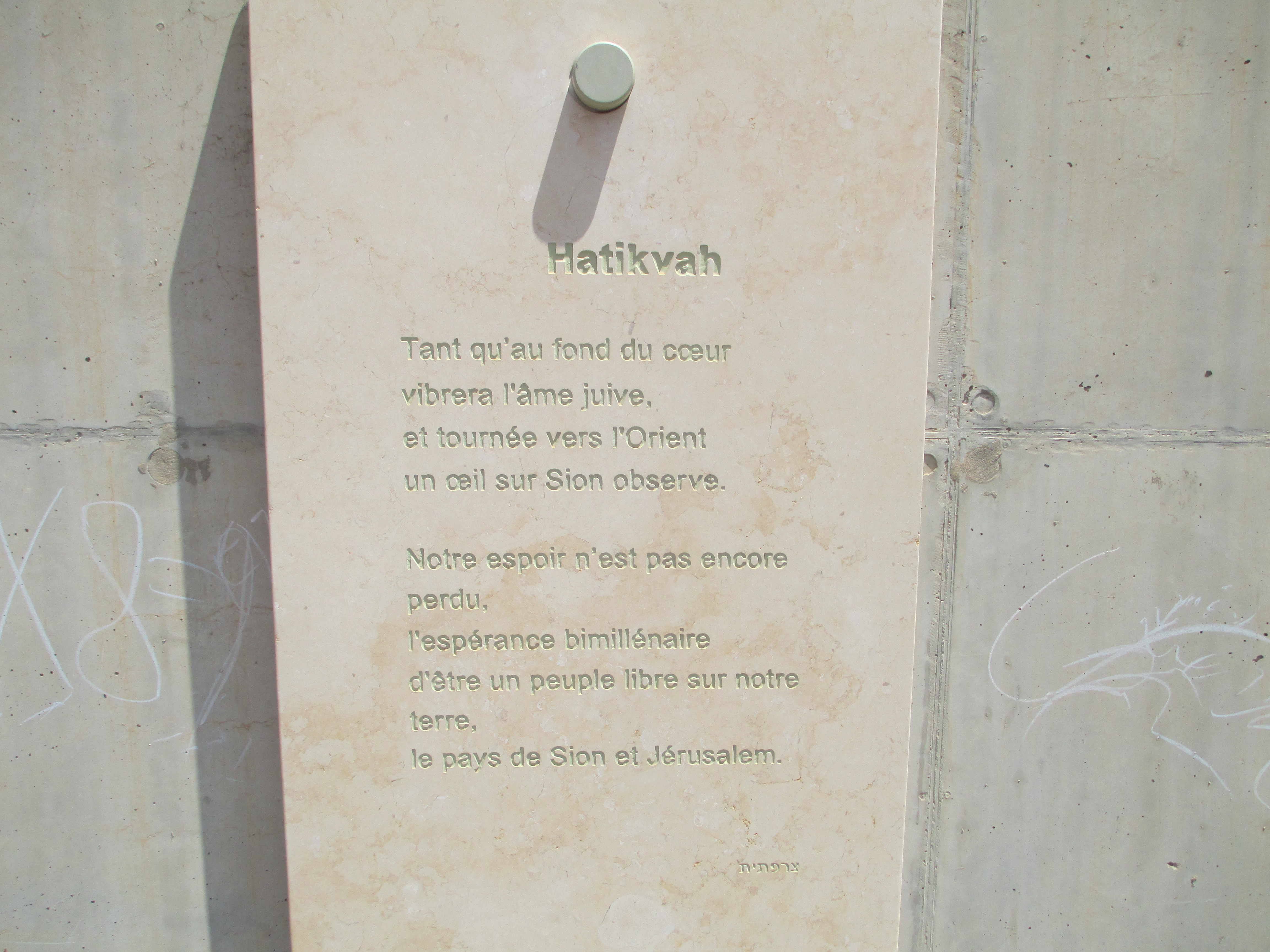 Hatikva in French